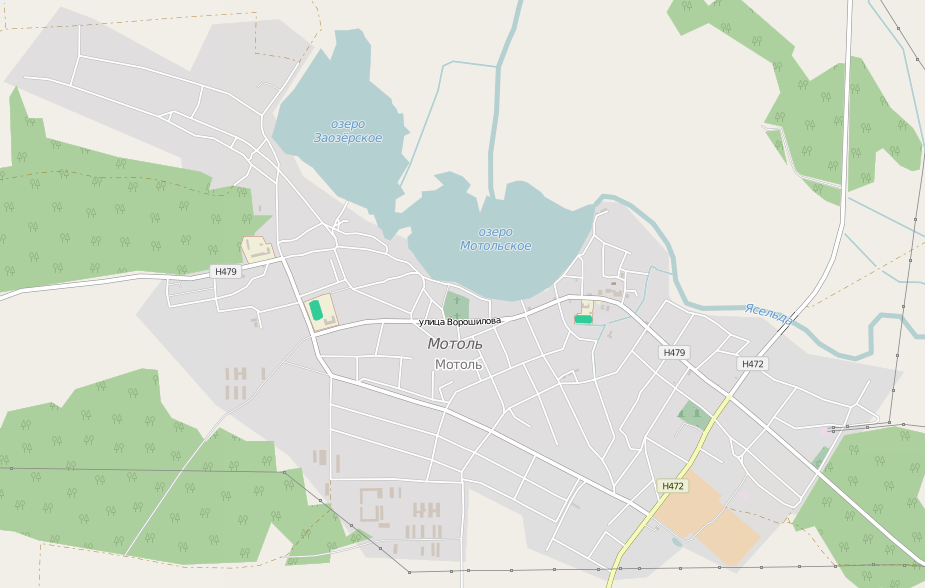 Motal on OpenStreetMap